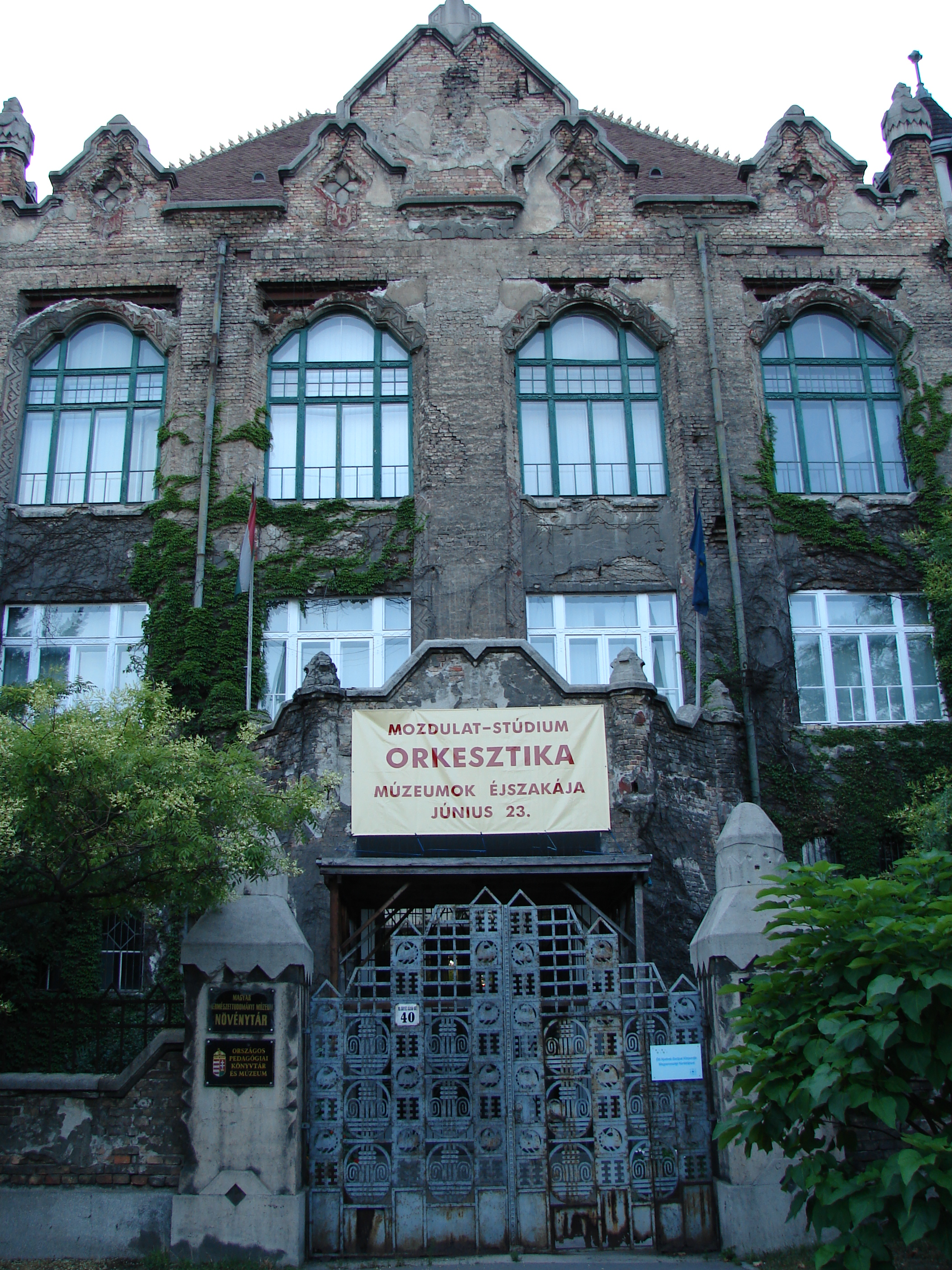 Botany Dept of the Hungarian Natural History Museum, Budapest, Könyves Kálmán Körút